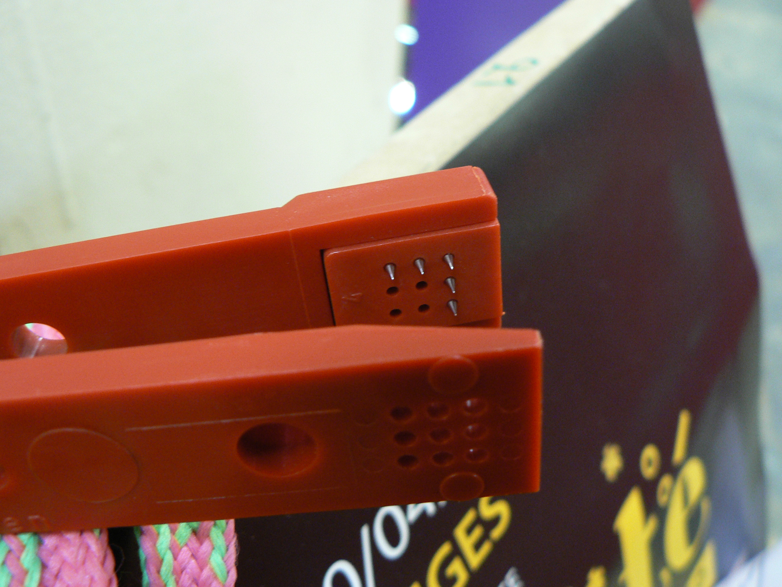 checkpoint perforator for orienteering